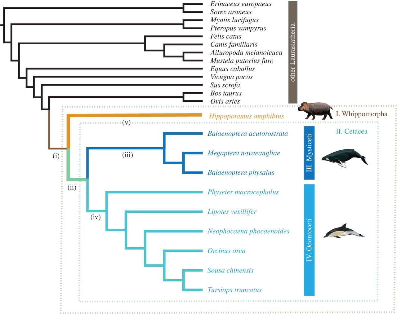 Evolutionary relationships among laurasiatherian mammals as used in molecular evolution analyses. The four clades tested for divergent selection are shown in colour and numbered in uppercase: (I) Whippomorpha (Hippopotamidae + Cetacea); (II) Cetacea; (III) Mysticeti and (IV) Odontoceti. Branches tested for positive selection are numbered in lowercase: (i) Whippomorpha (Hippopotamidae + Cetacea); (ii) Cetacea; (iii) Mysticeti; (iv) Odontoceti and (v) hippo.